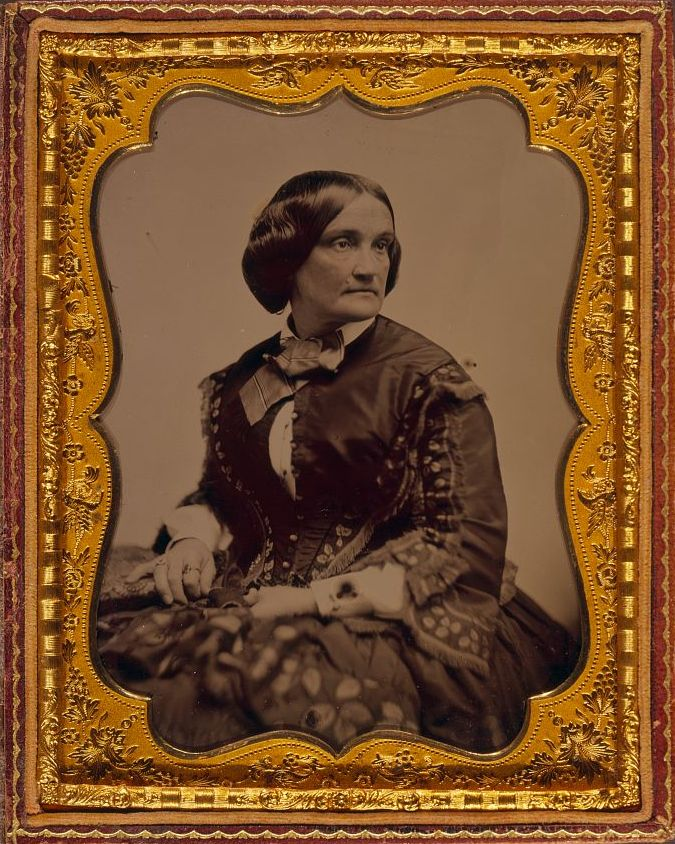 Ambrotype portrait of Charlotte Saunders Cushman, American actress